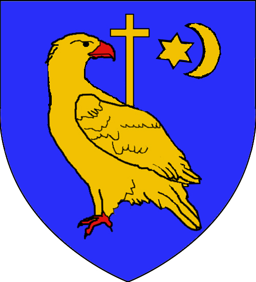 Coat of arms of Wallachia